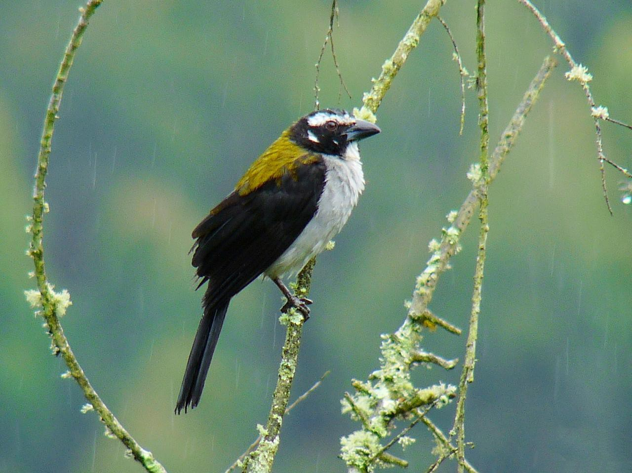 A Black-winged Saltator in Manizales, Caldas, Colombia. In the rain the feathers on its head have become wet.